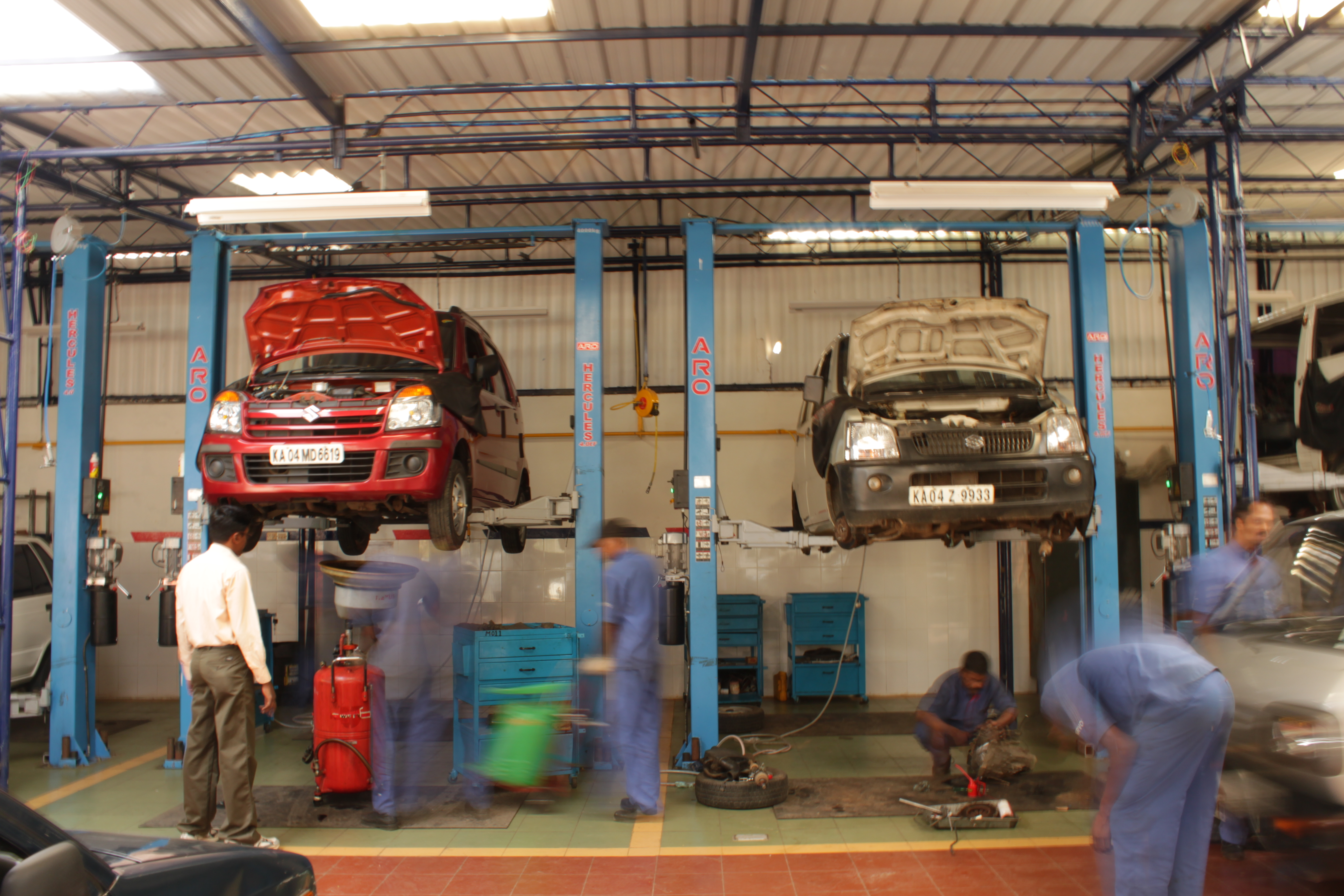 Car Service station in Bangalore